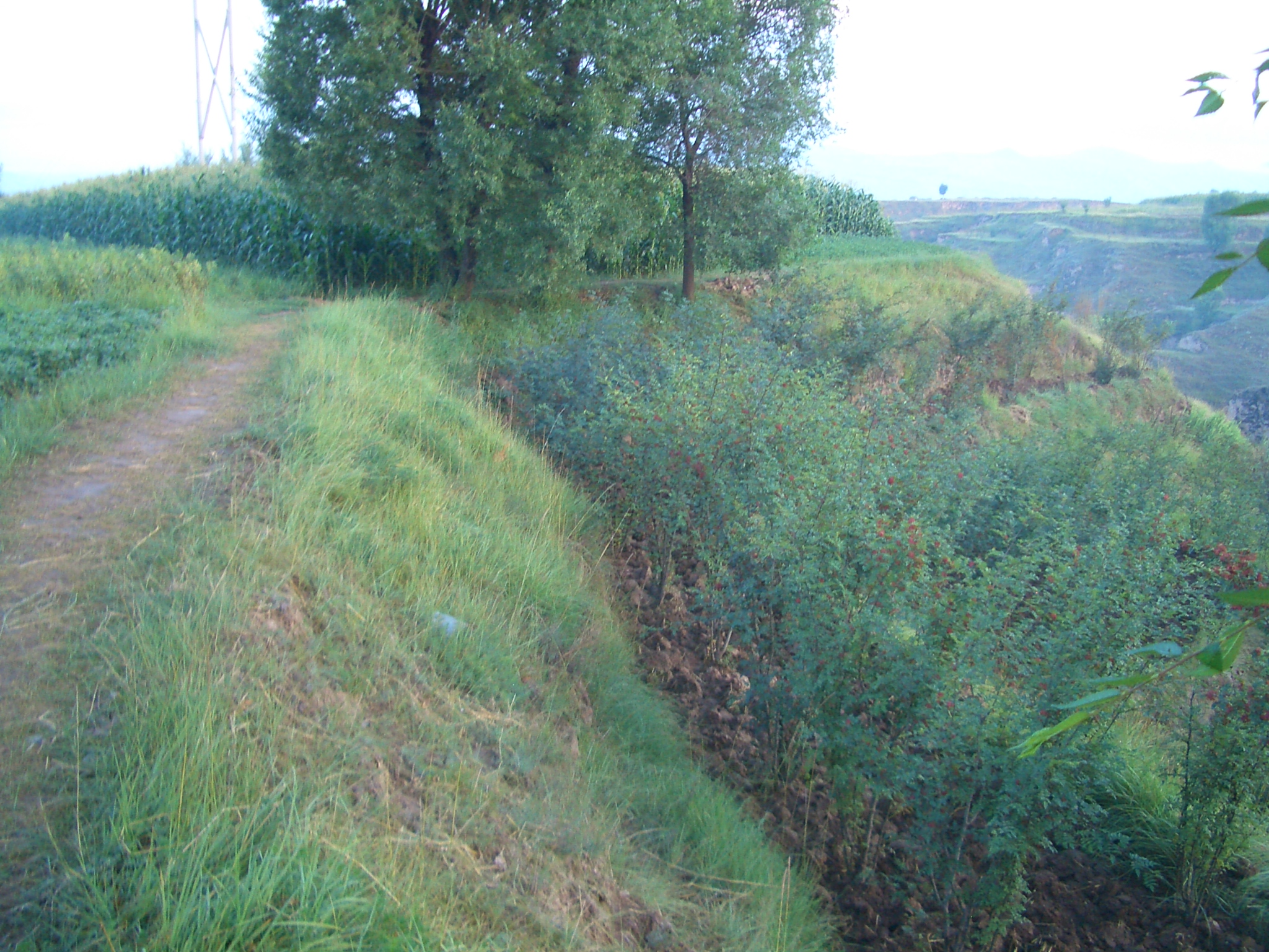 Sichuan pepper shrubs grown near eroding edges of the loess plateau north of Linxia city. It is probably planted there either in order to slow down erosion, or to make better use of the land, or both.